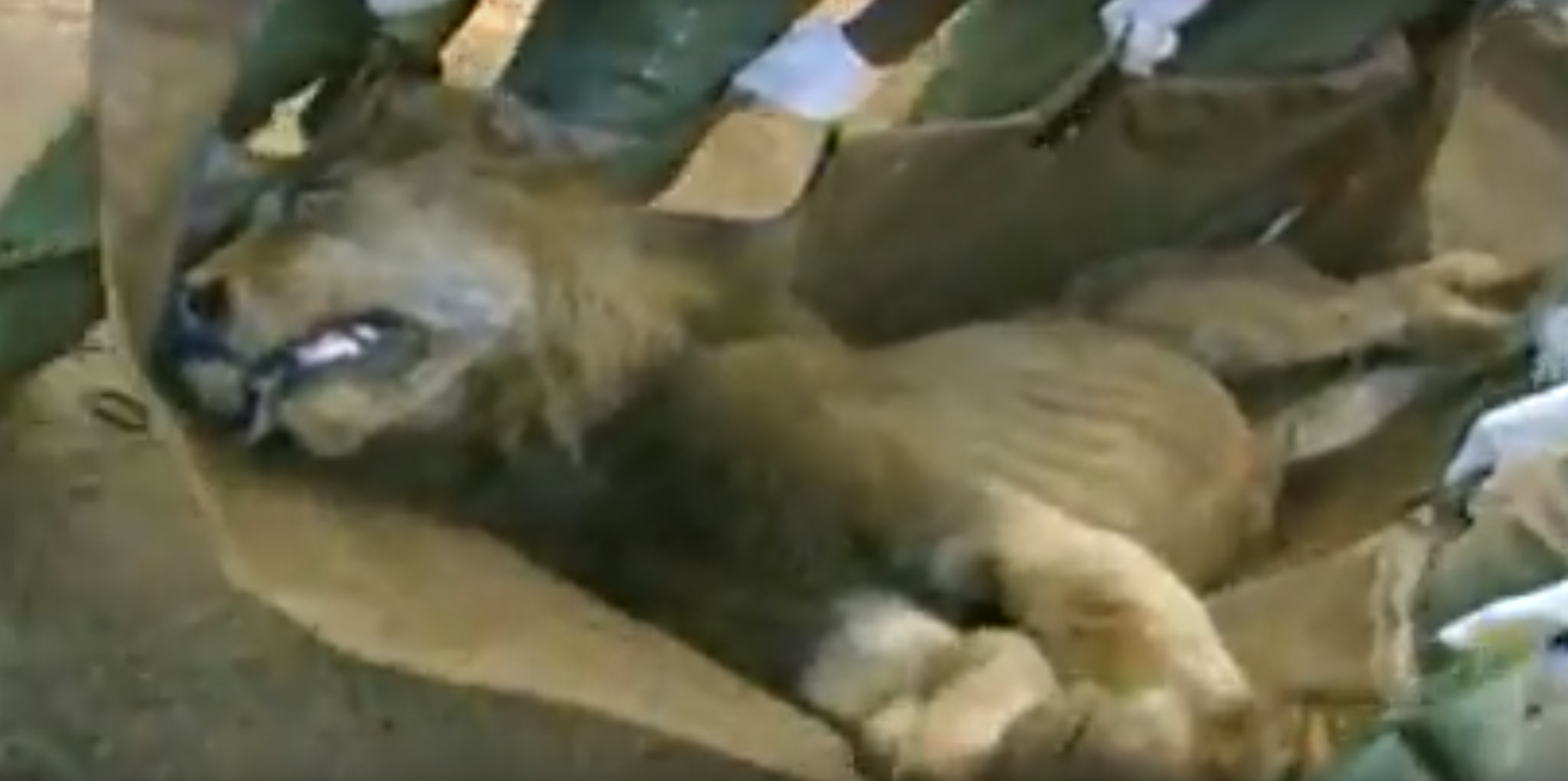 Bovine tuberculosis was introduced into the Kruger national Parks, South Africa in the 1960's. This video gives a brief overview of the lesions of tuberculosis lions as well as the social impact that the disease has on the lion populations in the Park.